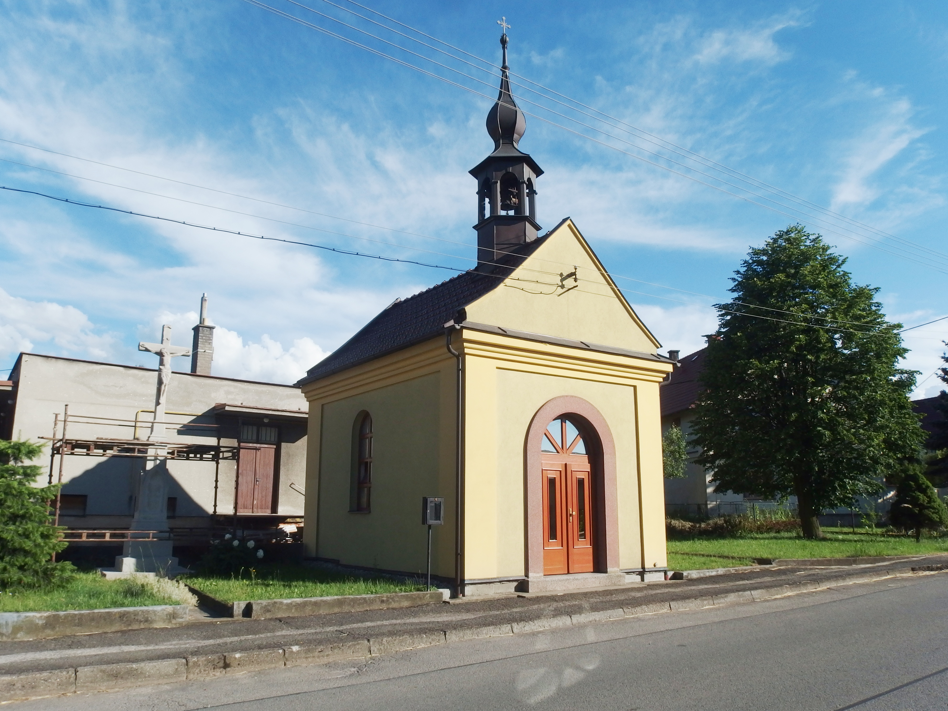 Starý Jičín, Nový Jičín District, Czech Republic, part Jičina.